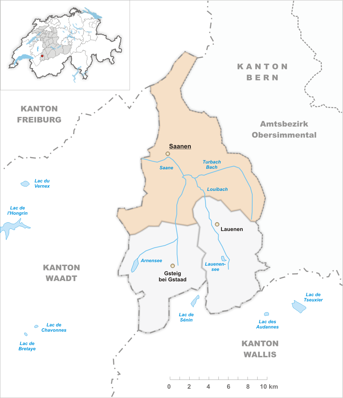 Municipality Saanen